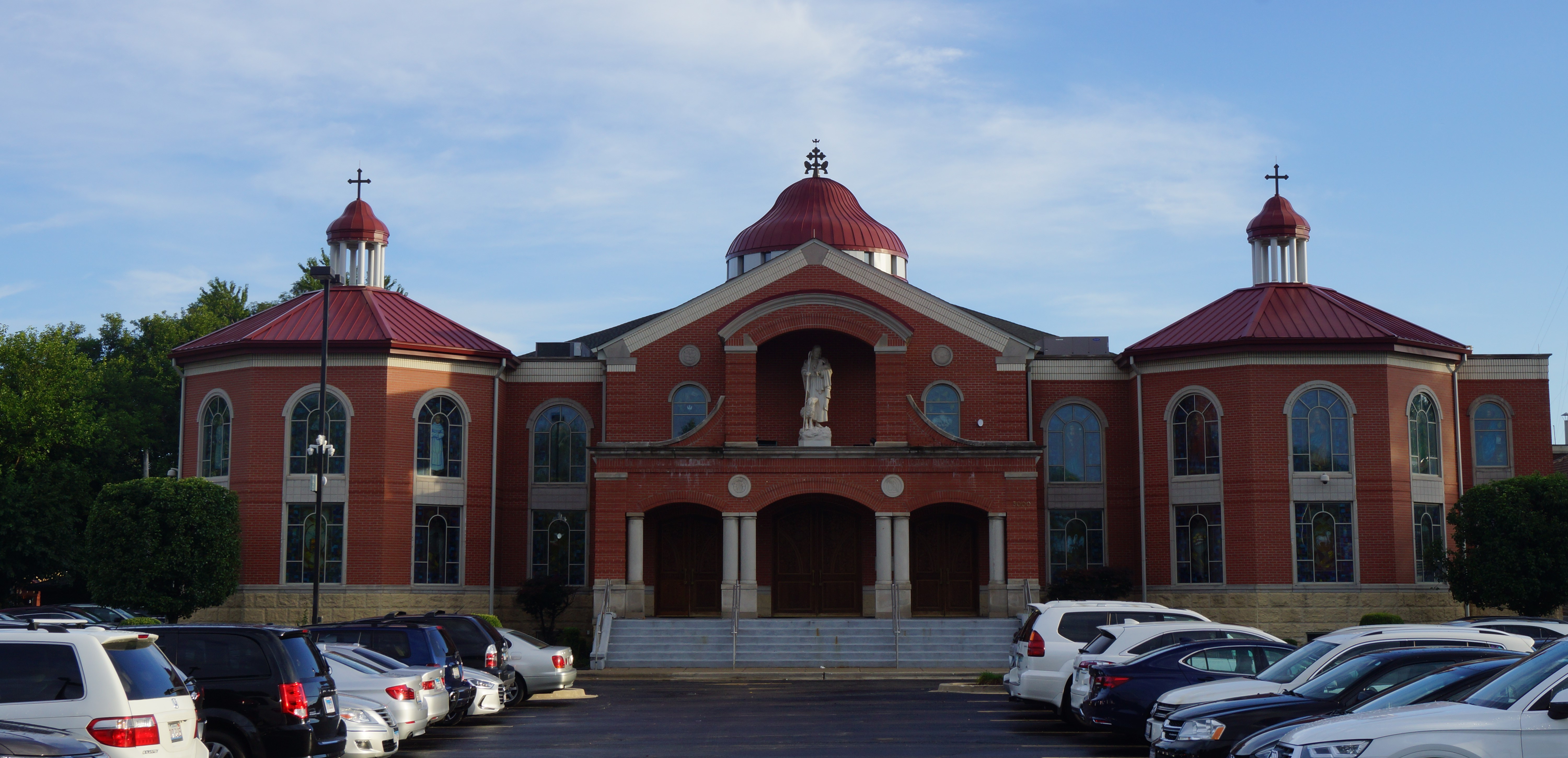 North facade of Mar Thoma Sleeha.